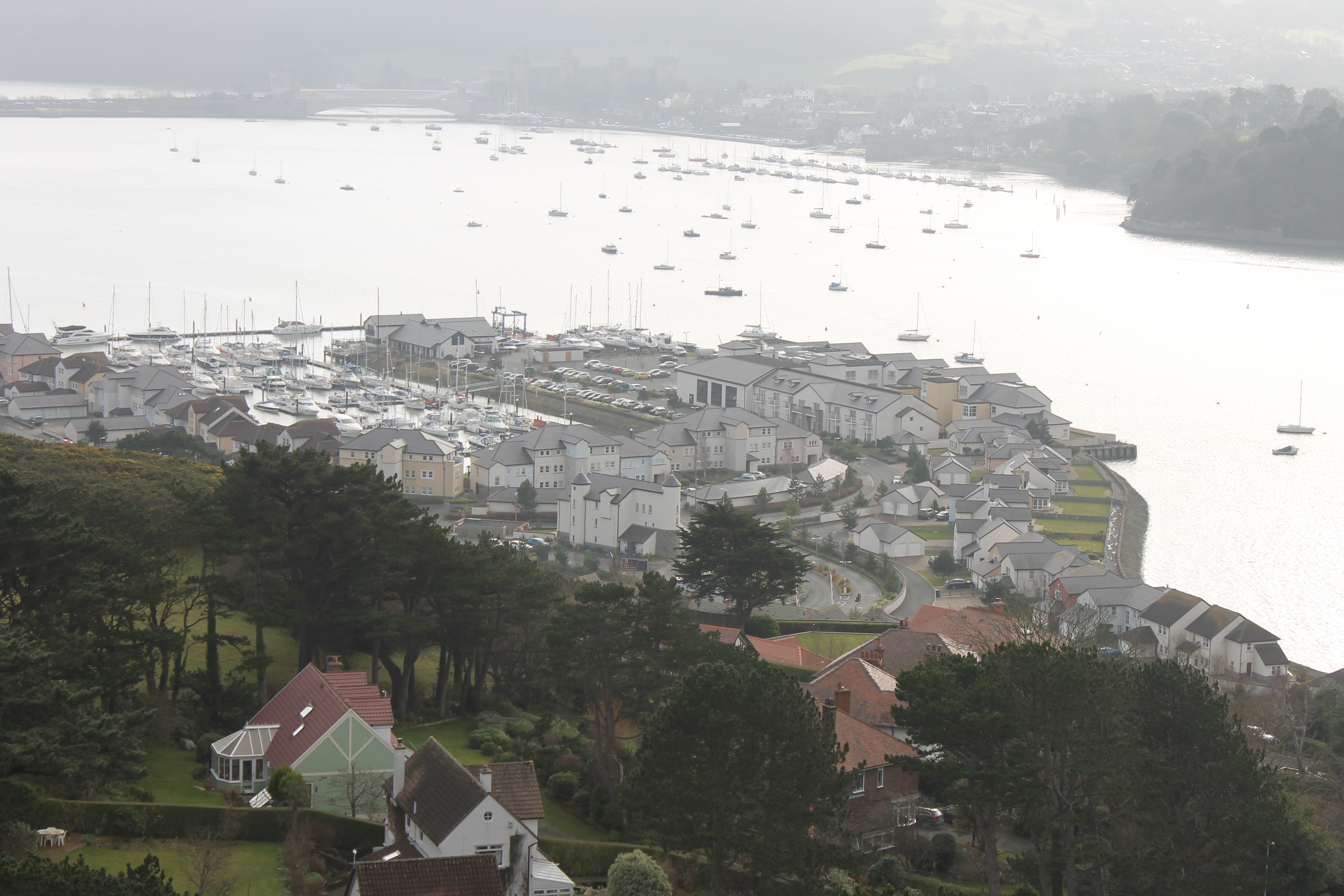 Caer Ddegannwy; Modern Welsh: Castell Degannwy) was an early stronghold of Gwynedd and lies in Deganwy at the mouth of the River Conwy in Conwy, North Wales.